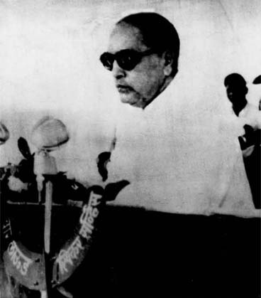 Dr. Babasaheb Ambedkar